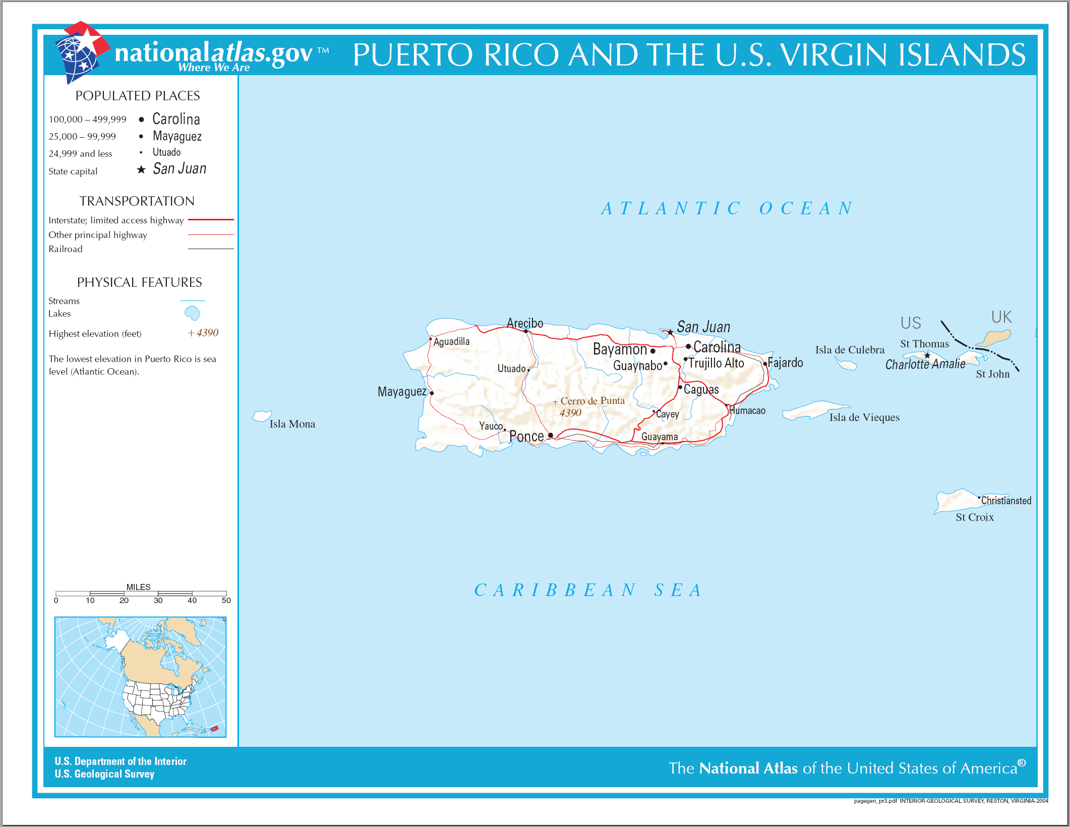 Map of Puerto Rico